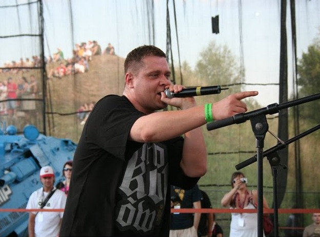 Polish rapper Jacek "Tede" Graniecki